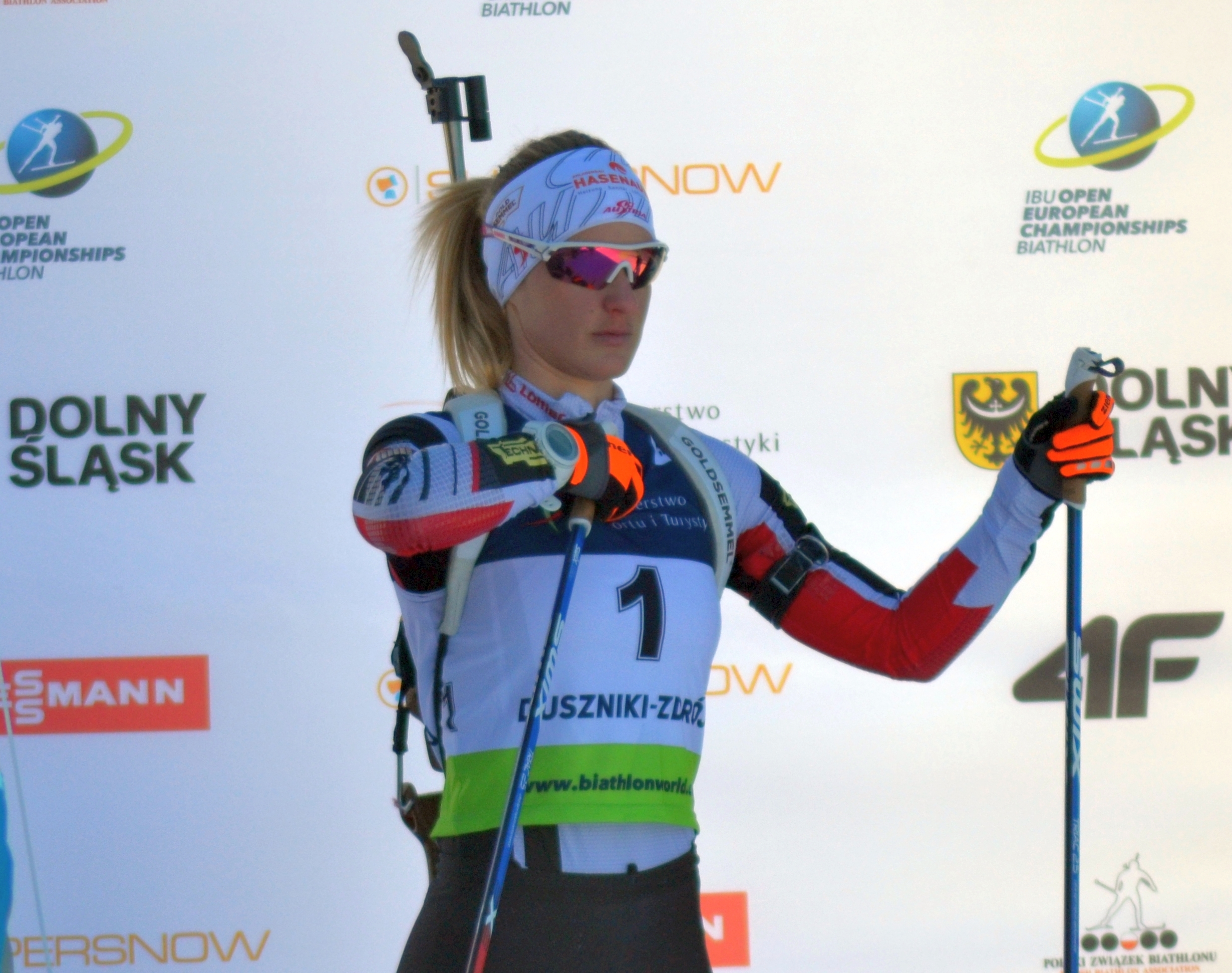 Open European Championships Biathlon 2017, Sprint Women's race, held on January 27th.